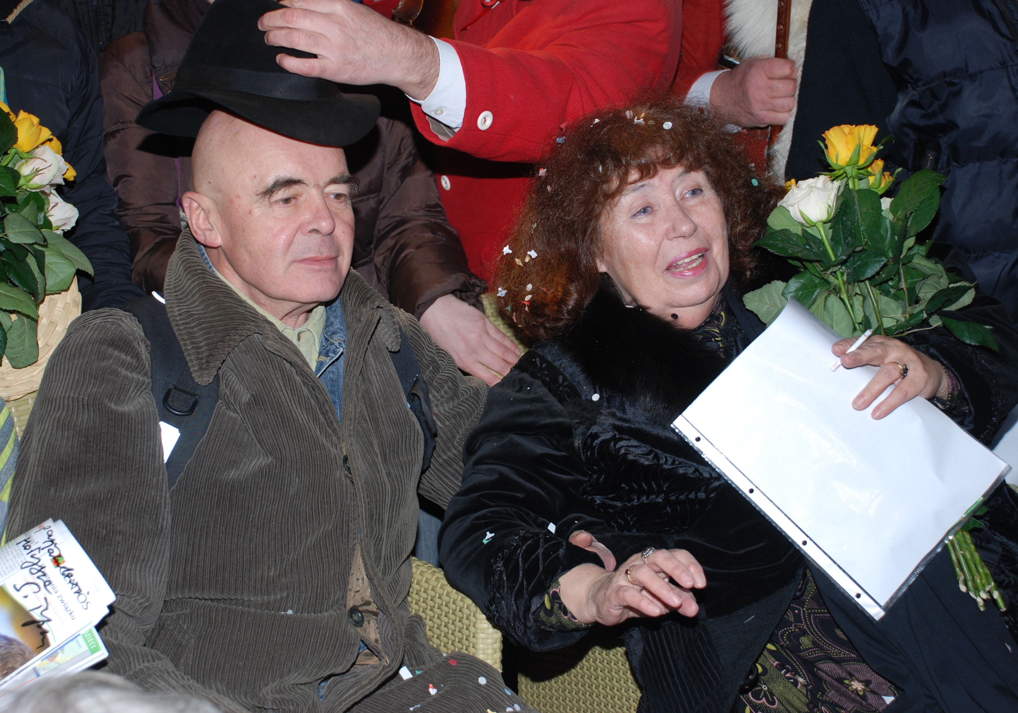 Zofia Merle (in the foreground) and Stanisław Tym (in the background), greeting their "welcoming committee" at the railway station on the first day of the 2007 Festival of Cabaret in Zielona Góra.